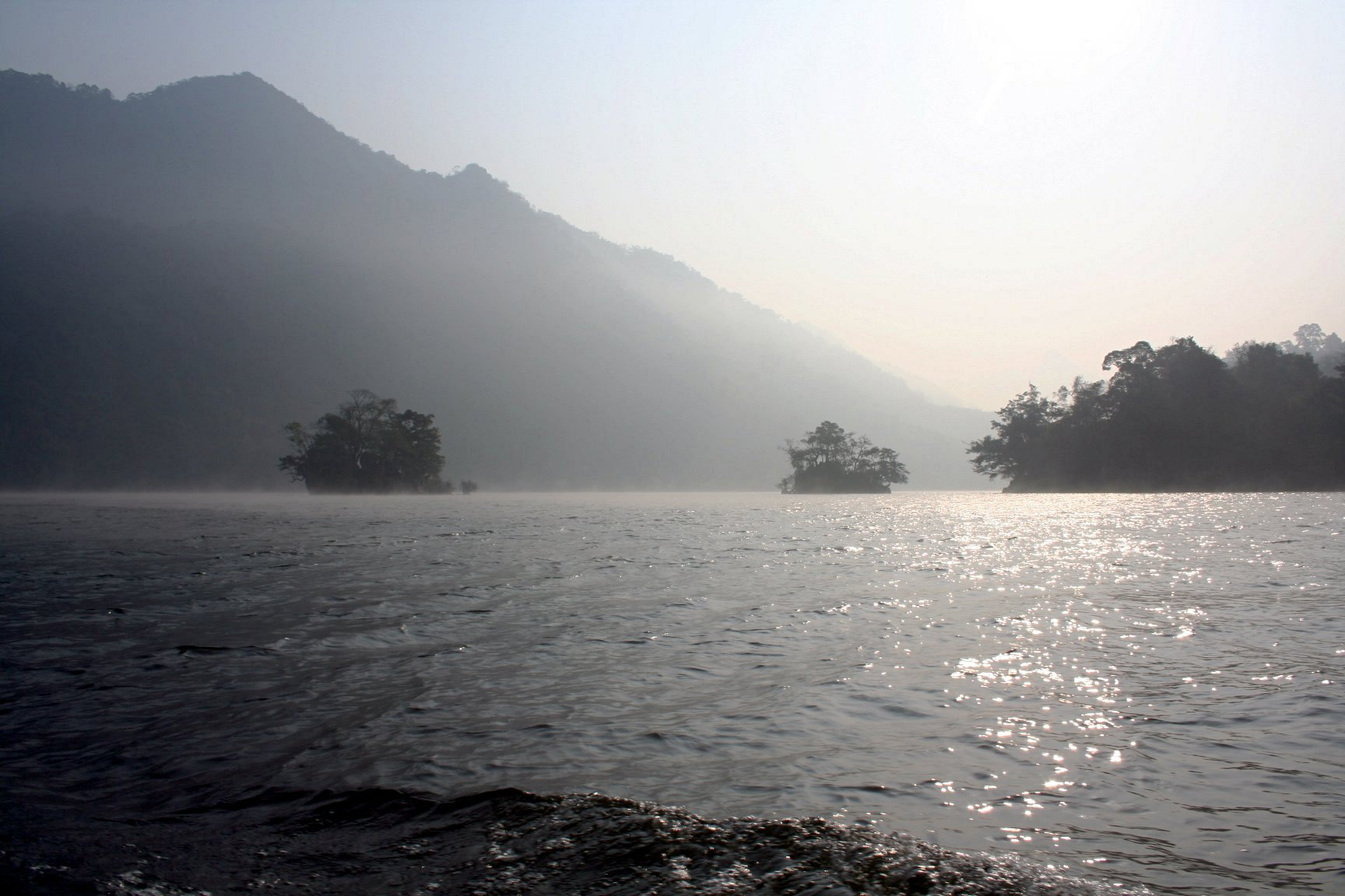 Photograph of morning mist on Ba Bê Lake in Ba Bê National Park in Bắc Kạn Province, Northeast Vietnam during the dry season taken by Rolf Müller